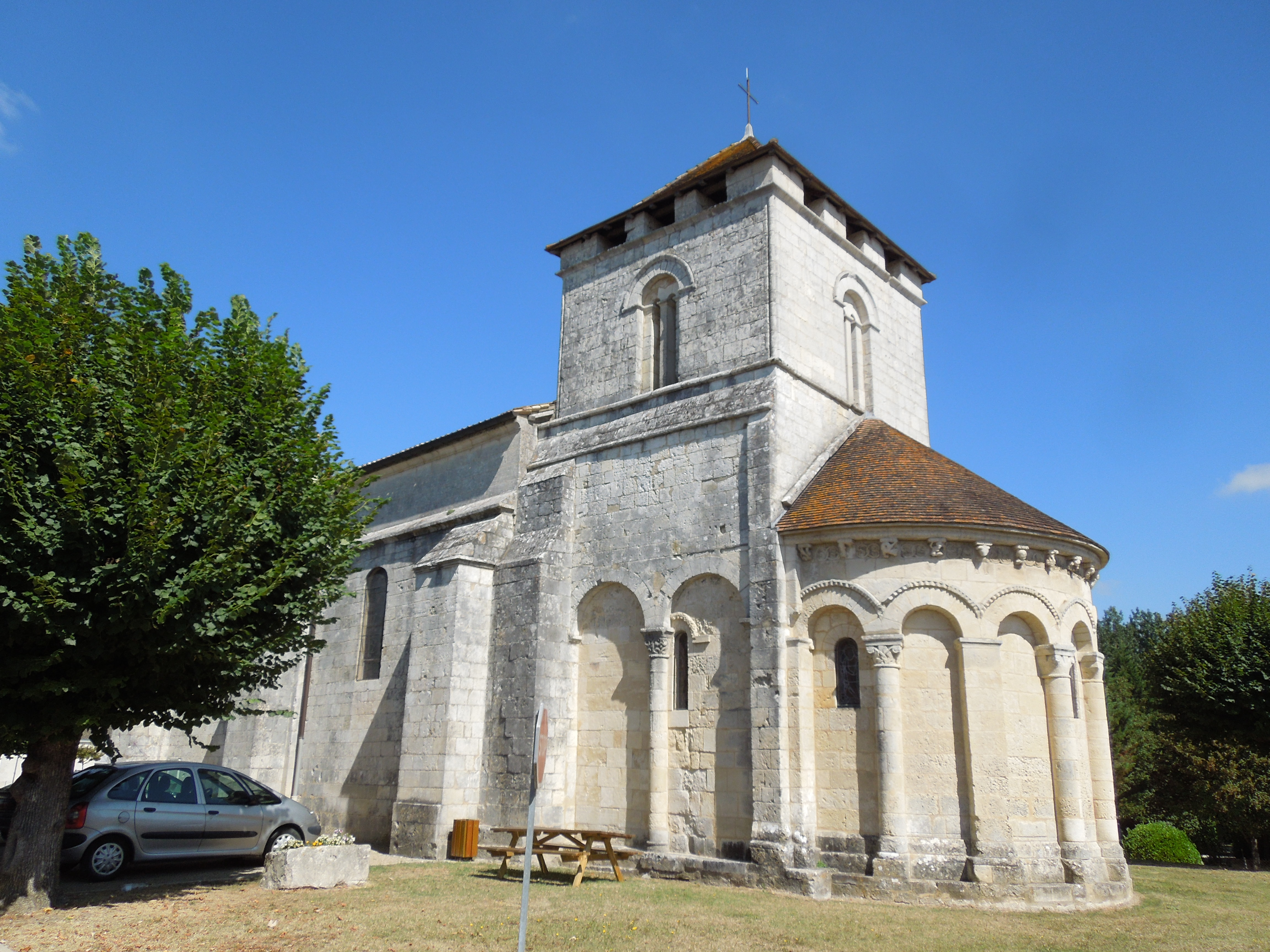 Mosnac (Charente-Maritime): village church Saint-Saturnin, view from Southeast